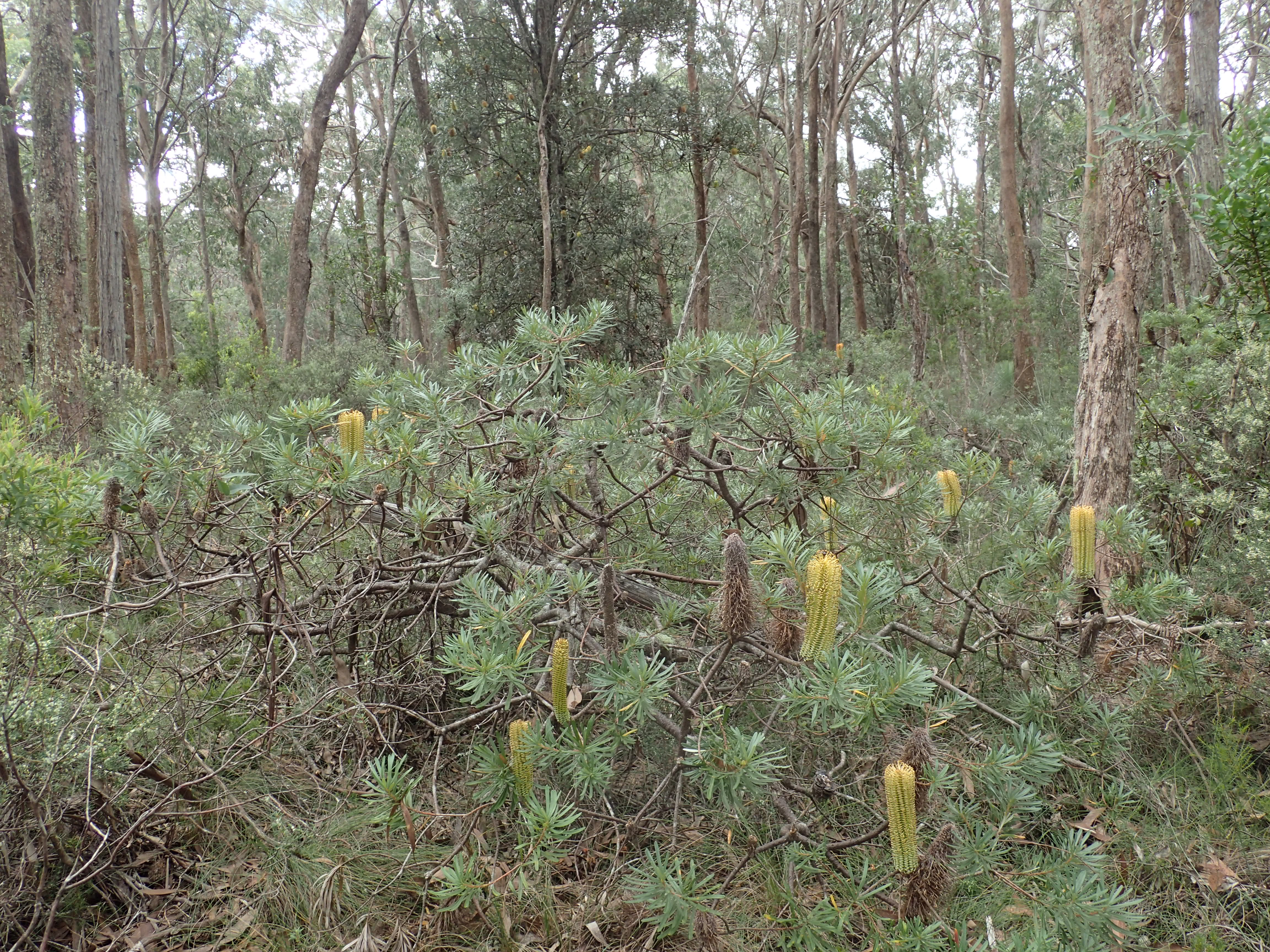 Banksia neoanglica growing at the type location (Waterfall Way, 0.9km north of New England National Park turnoff)